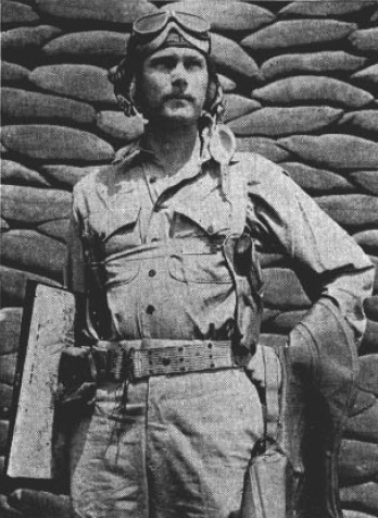 U.S. Navy Lt. George W. Polk, circa 1943. After the invasion of Guadalcanal, the first element of Construction Unit Base 1 (CUB-1), an advance fuel and supply base, landed on 16 August 1942. This element, under Ensign George W. Polk, USNR, consisted of five officers and 118 enlisted personnel, all navy petty officers of aviation support ratings. CUB-1 later received a Presidential Unit Citation for its service. Polk also performed duty as a "volunteer" dive bomber and reconnaissance pilot. He was wounded, suffered from malaria and was hospitalized for almost a year. After the war, Polk became a noted newsman for the Columbia Broadcasting System, and was murdered by terrorists during the Greek Civil War in 1948.